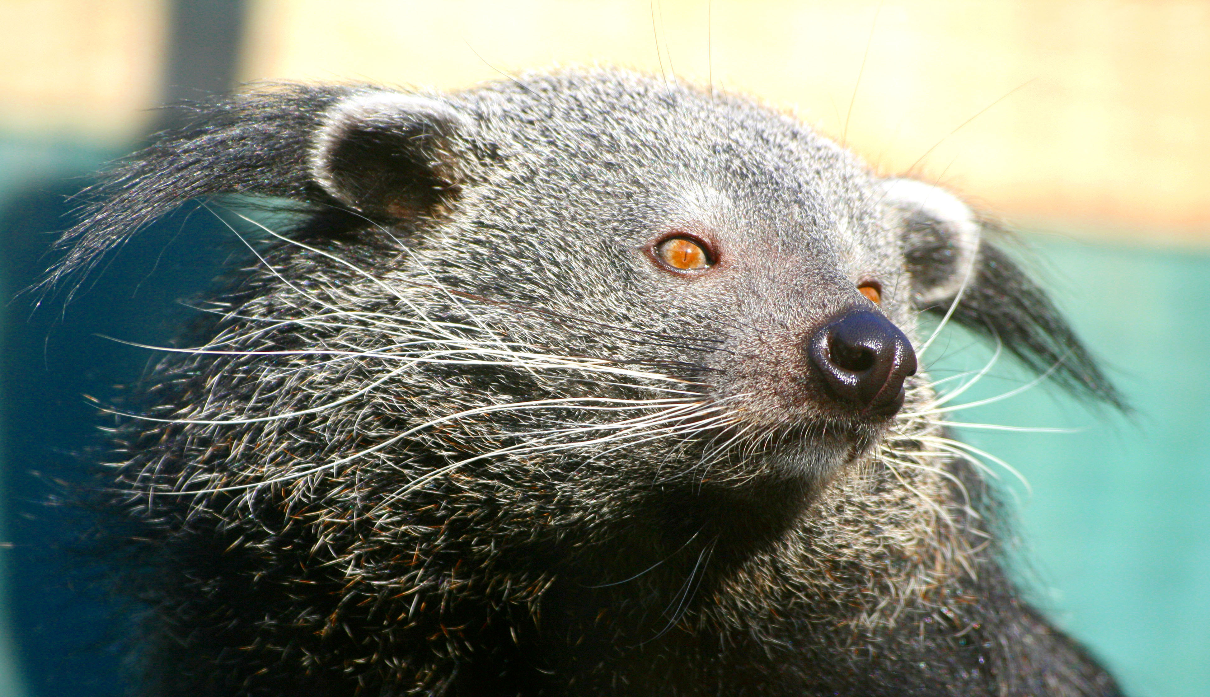 Binturong (Arctictis binturong) - Rare Species Conservation Centre, Kent, England - Sunday October 12th 2008.